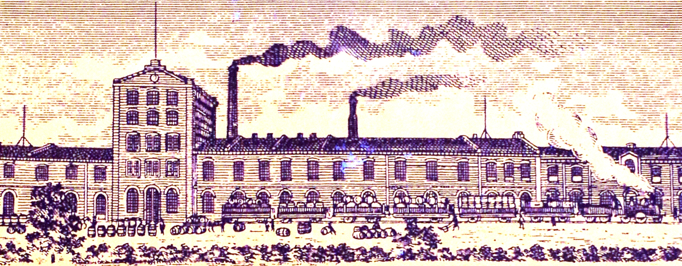 Factory in Ödåkra before 1917